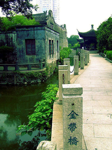 Yuhailou_ruian